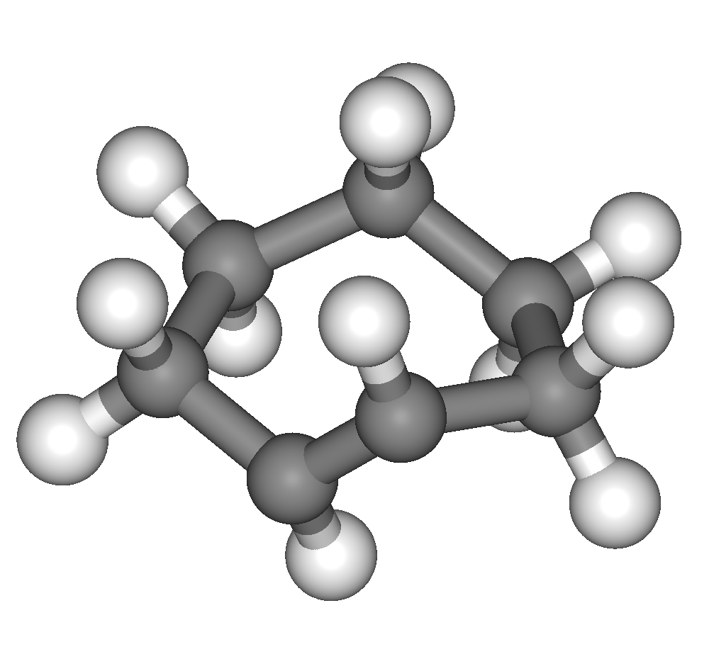 chemical structure of trans-cycloheptene